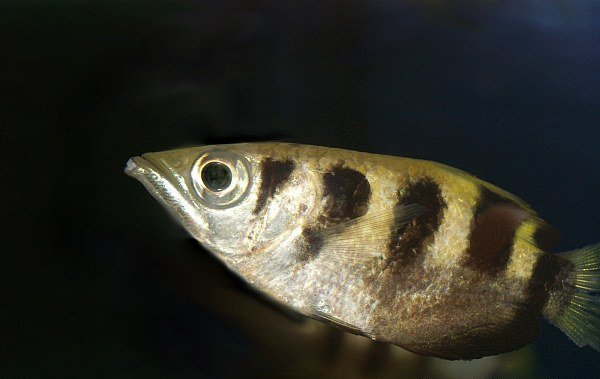 Archer Fish